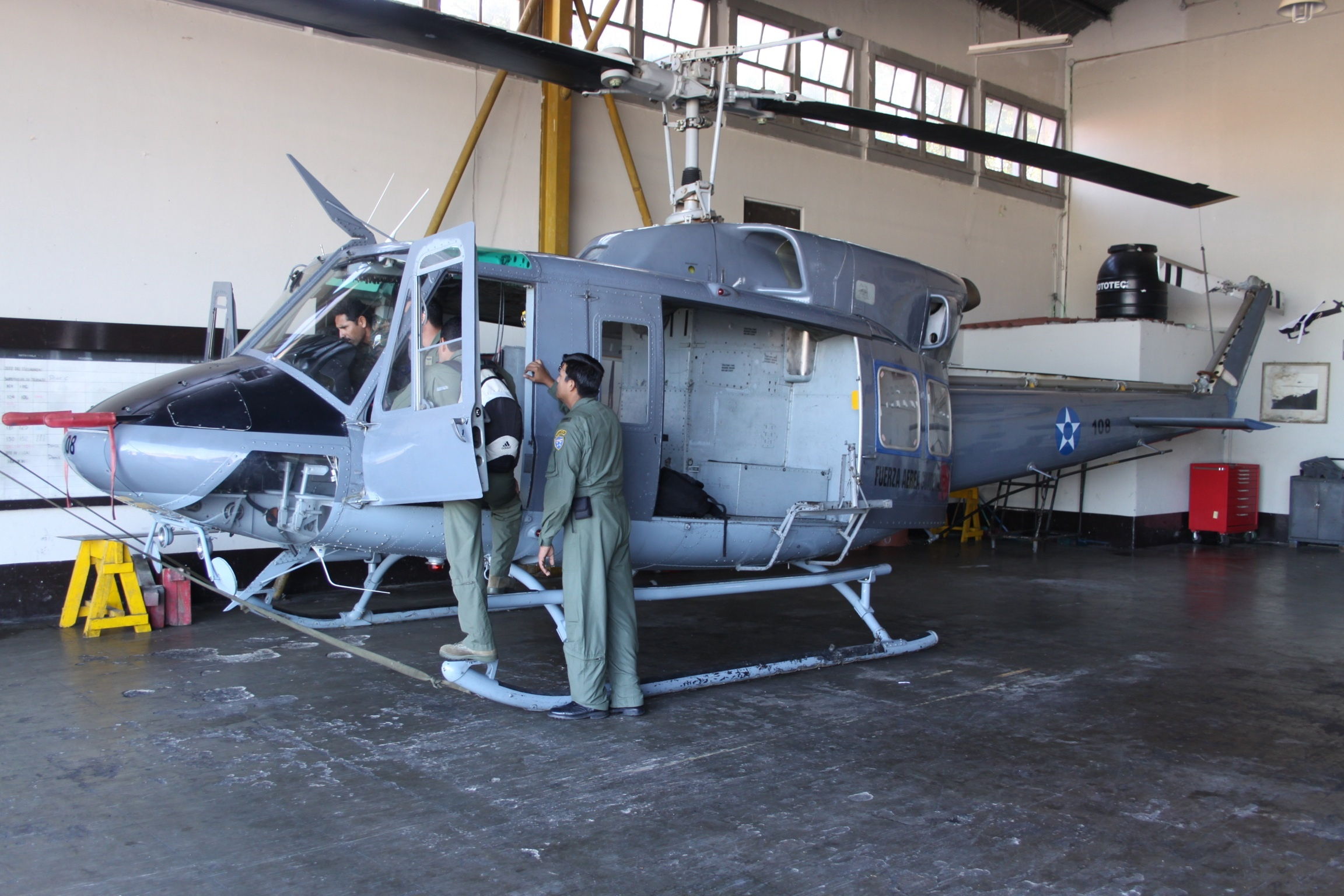 At Guatemala La Aurora International